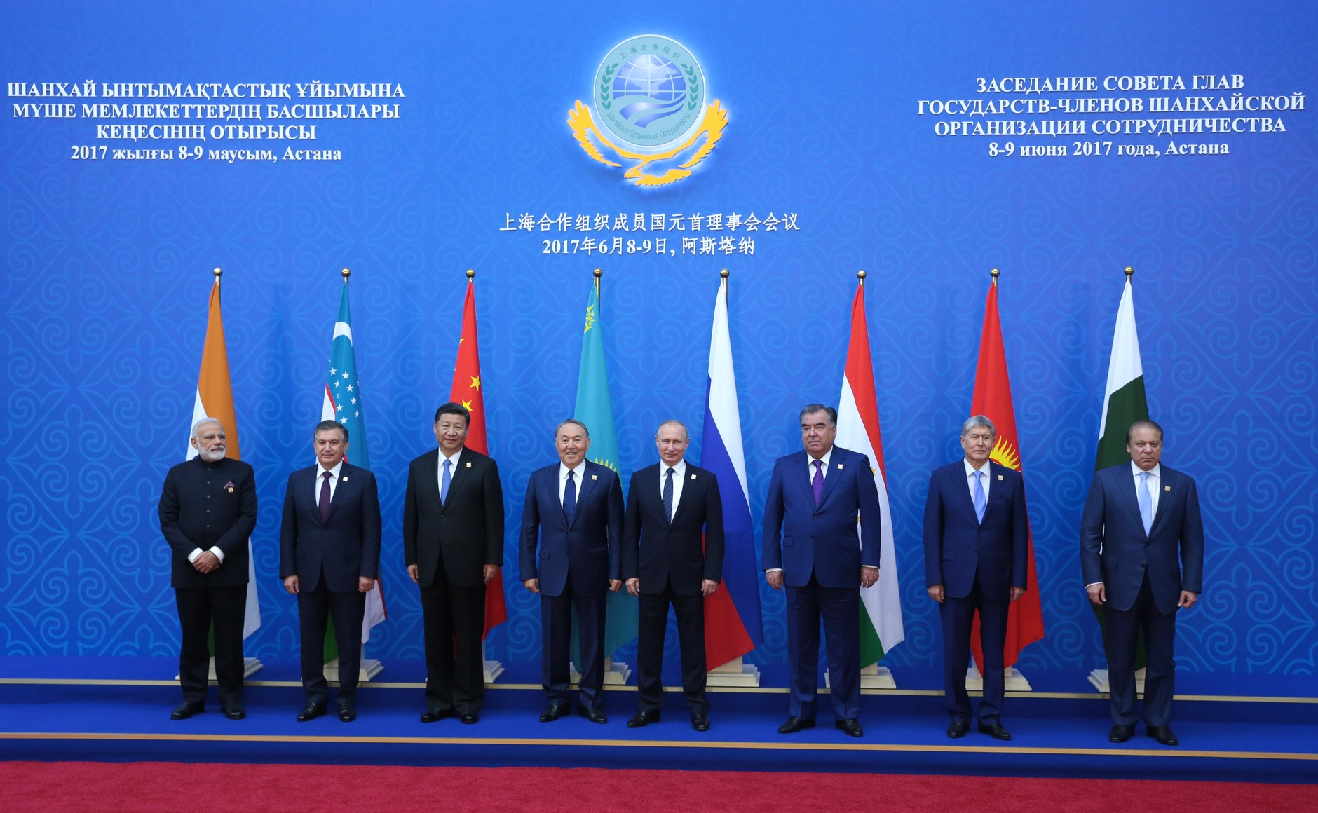 Heads of SCO member countries at the 2017 Summit in Nur-Sultan